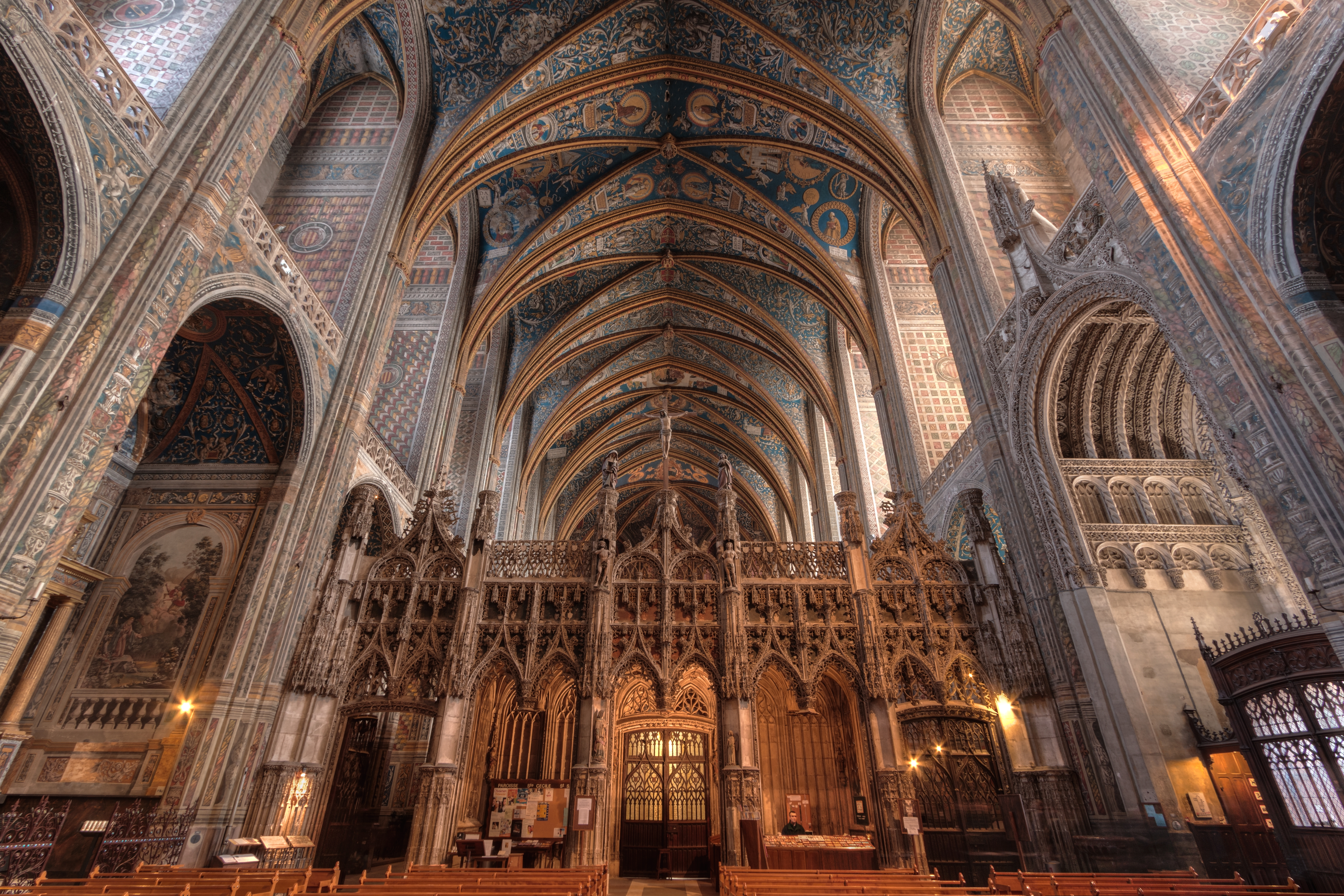 Nave of Cathedral of Albi in South of France.